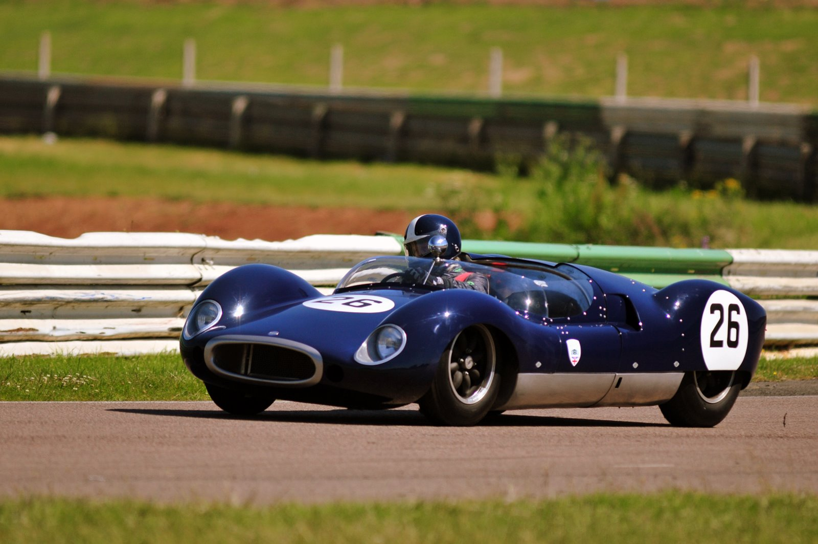 A Cooper Monaco sports car, being tested at Mallory Park, June 2009.